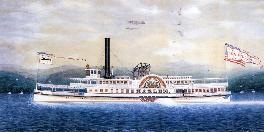 Harlem, Hudson River steamboat built 1871, water color on paper by James Bard.